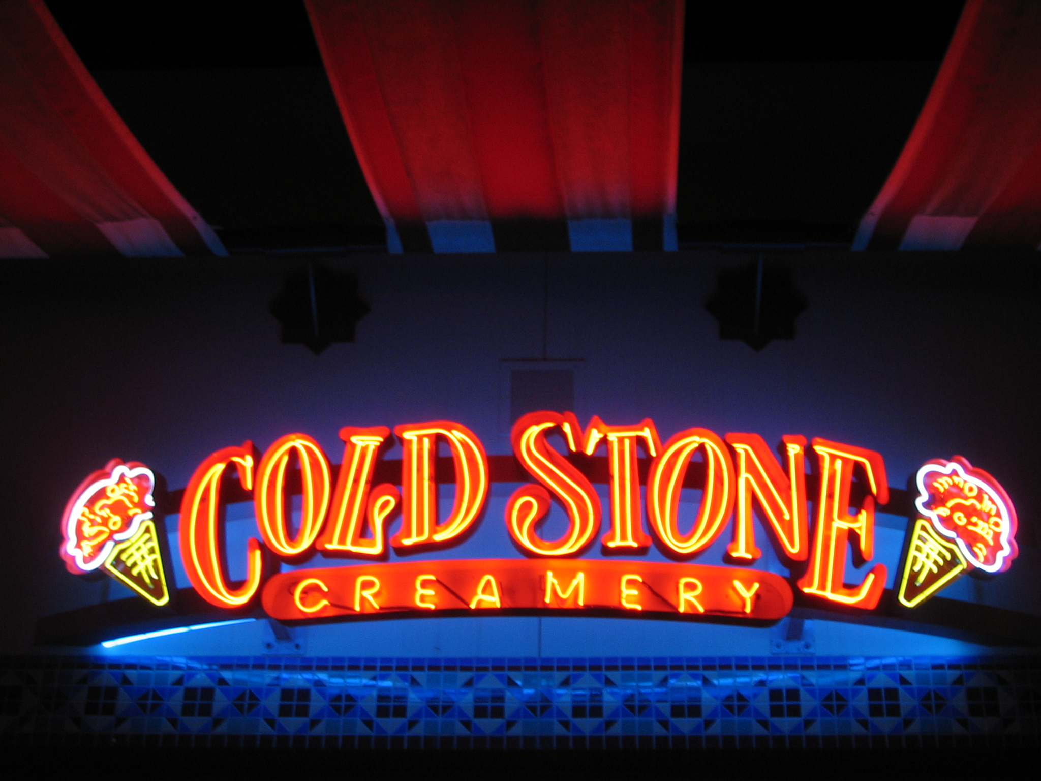 Neon sign for the Coldstone Creamery at Irvine Spectrum in Irvine, California.